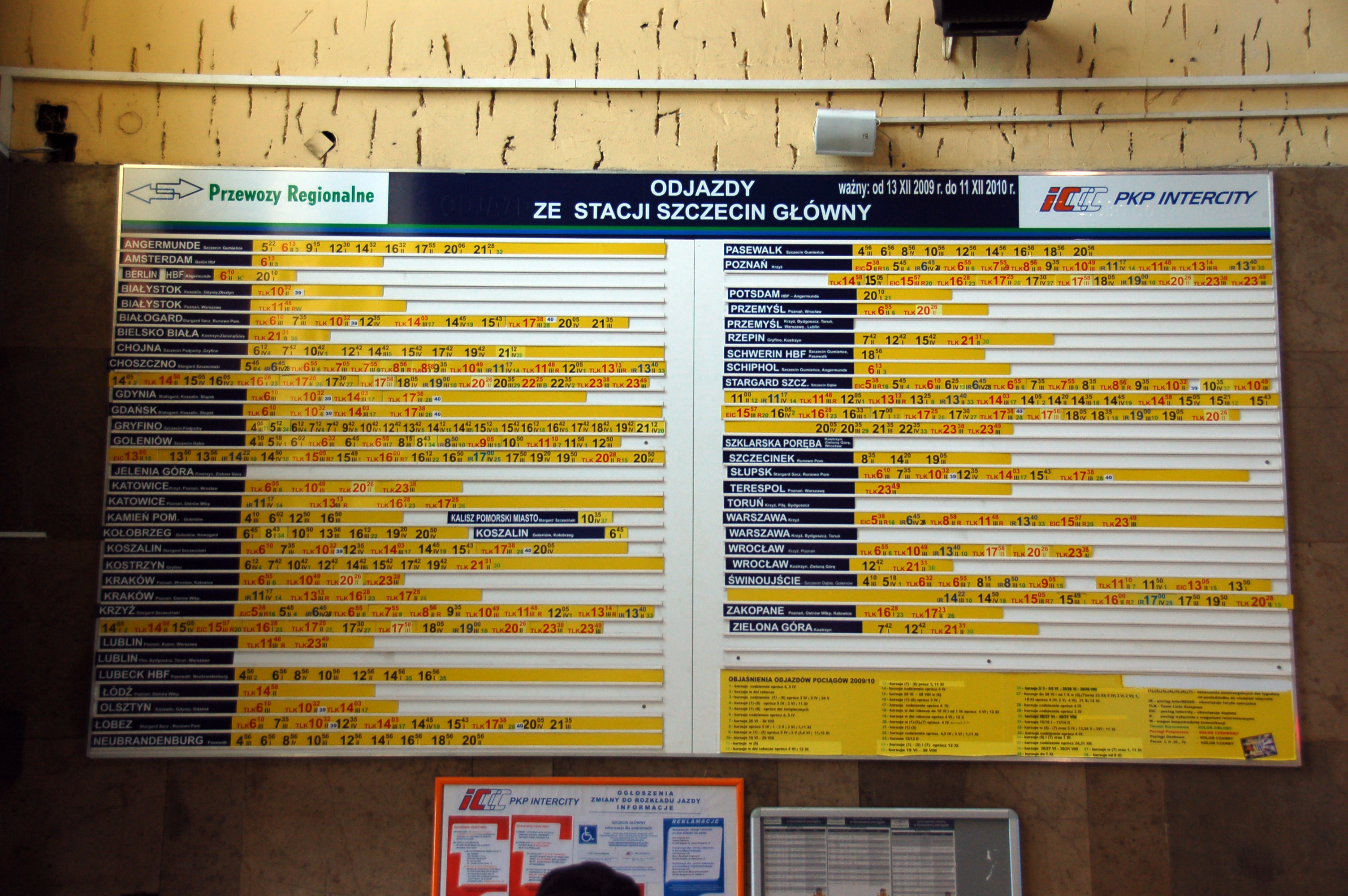 Stettin central train station